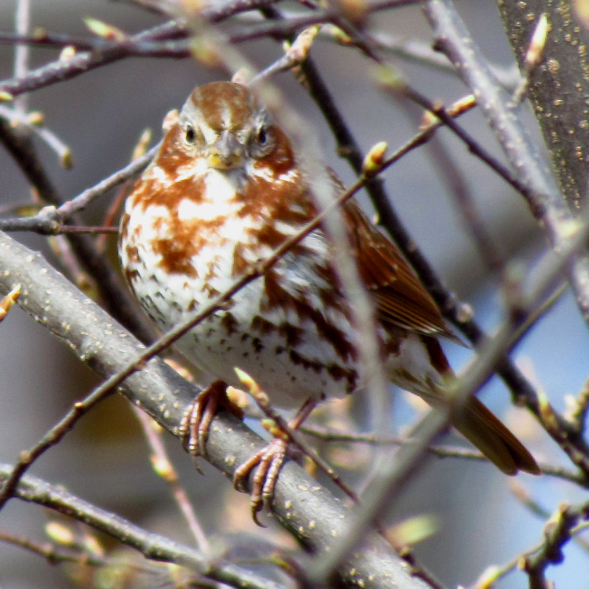 Red Fox Sparrow (Passerella iliaca iliaca), Ottawa, Ontario, Canada